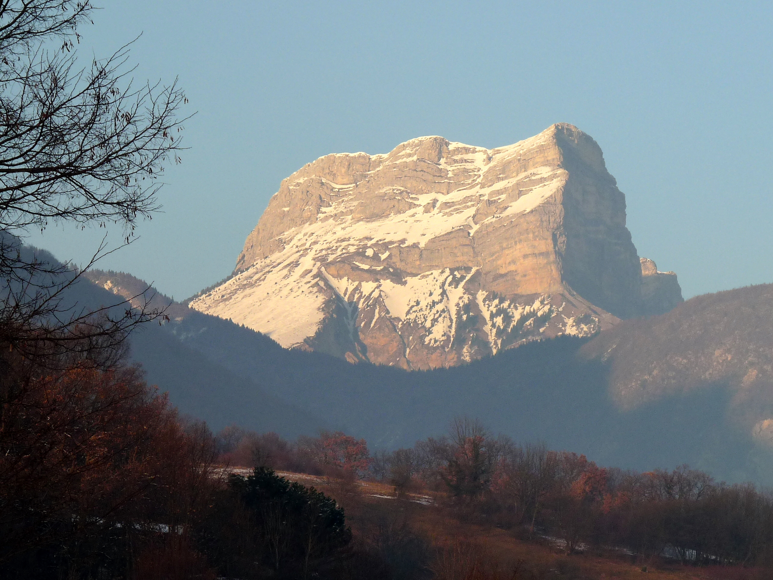 Dent de Crolles shot before sunset from Biviers, France